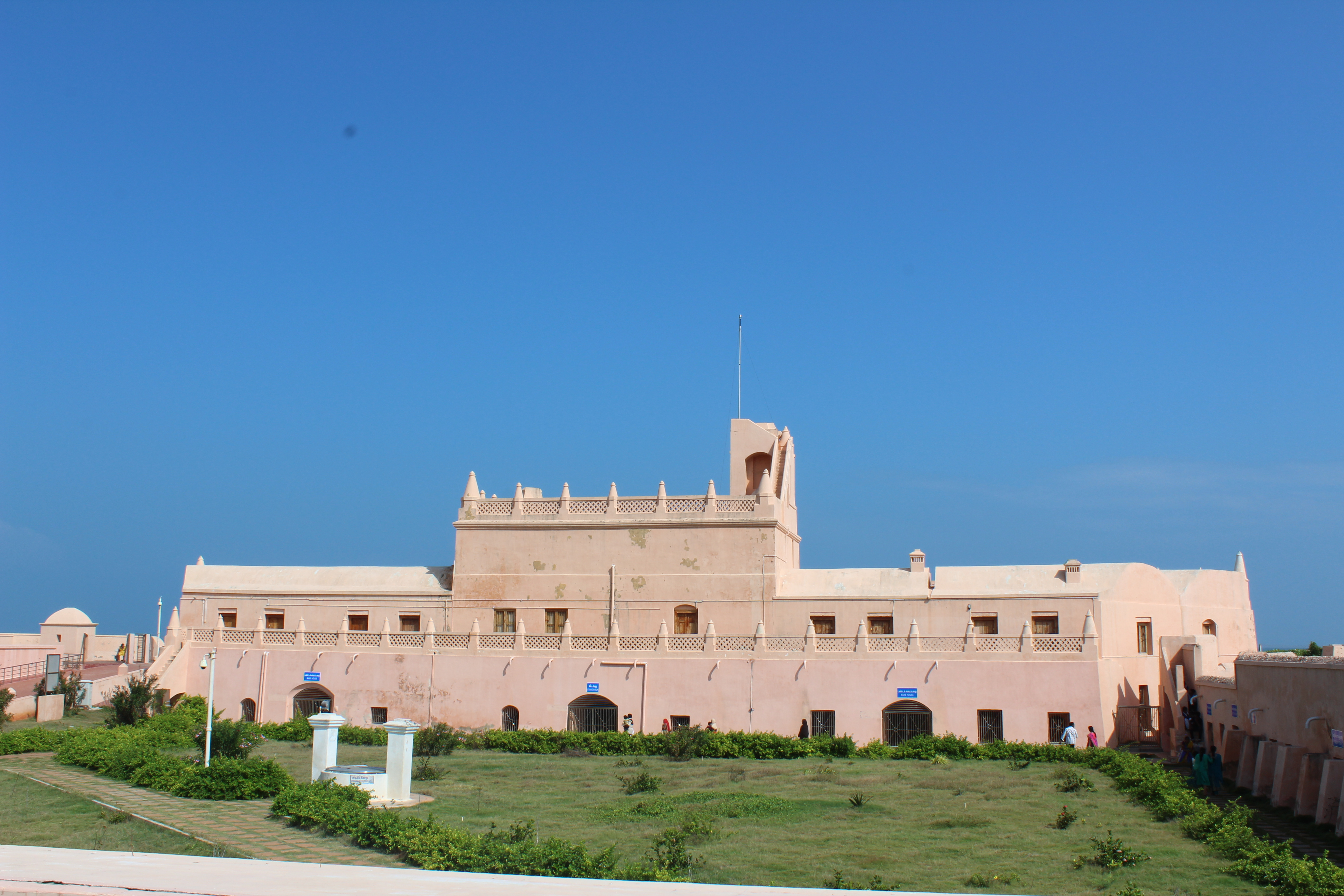 Tharangambadi